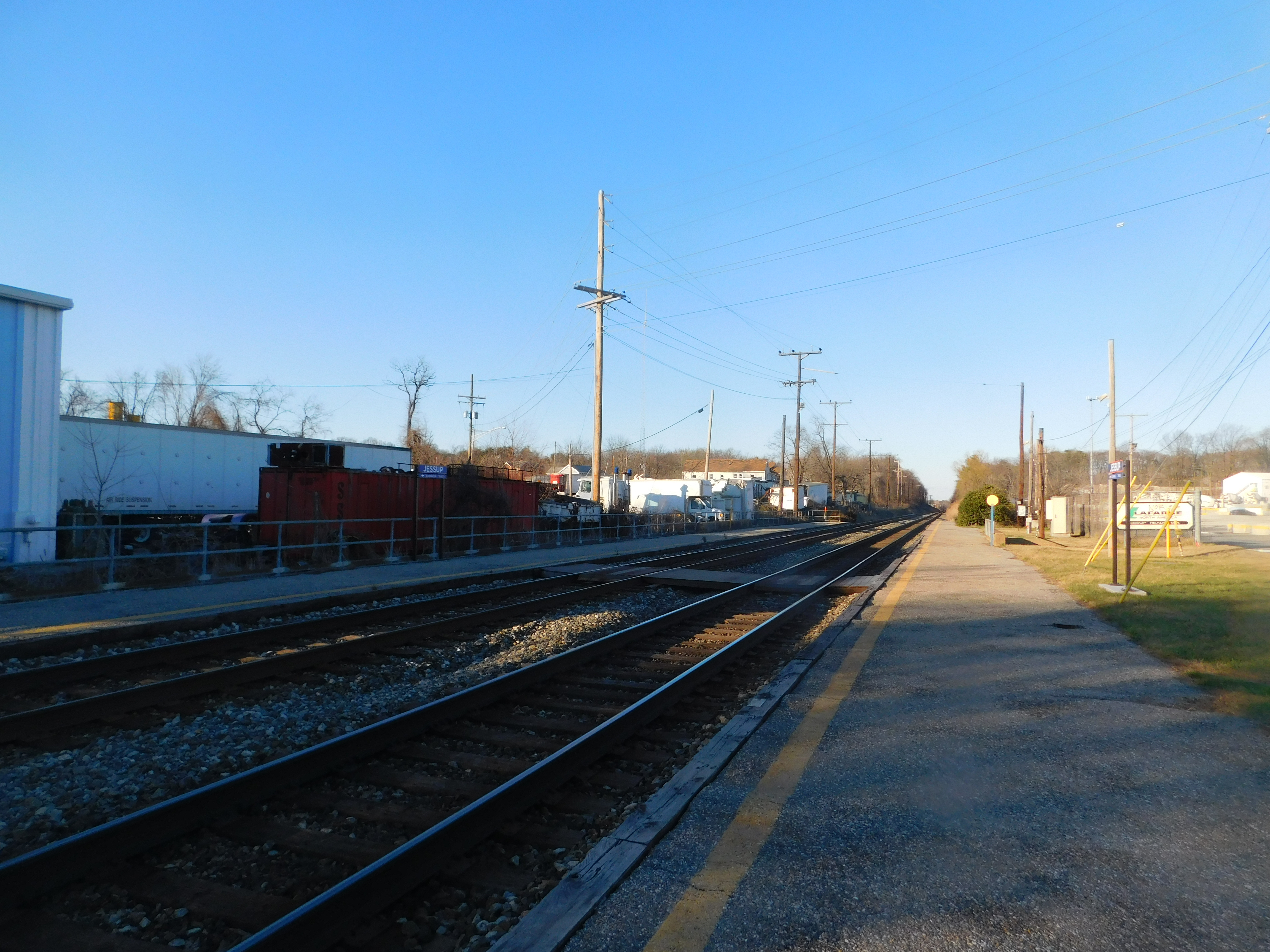 The Jessup station for MARC in March 2017.